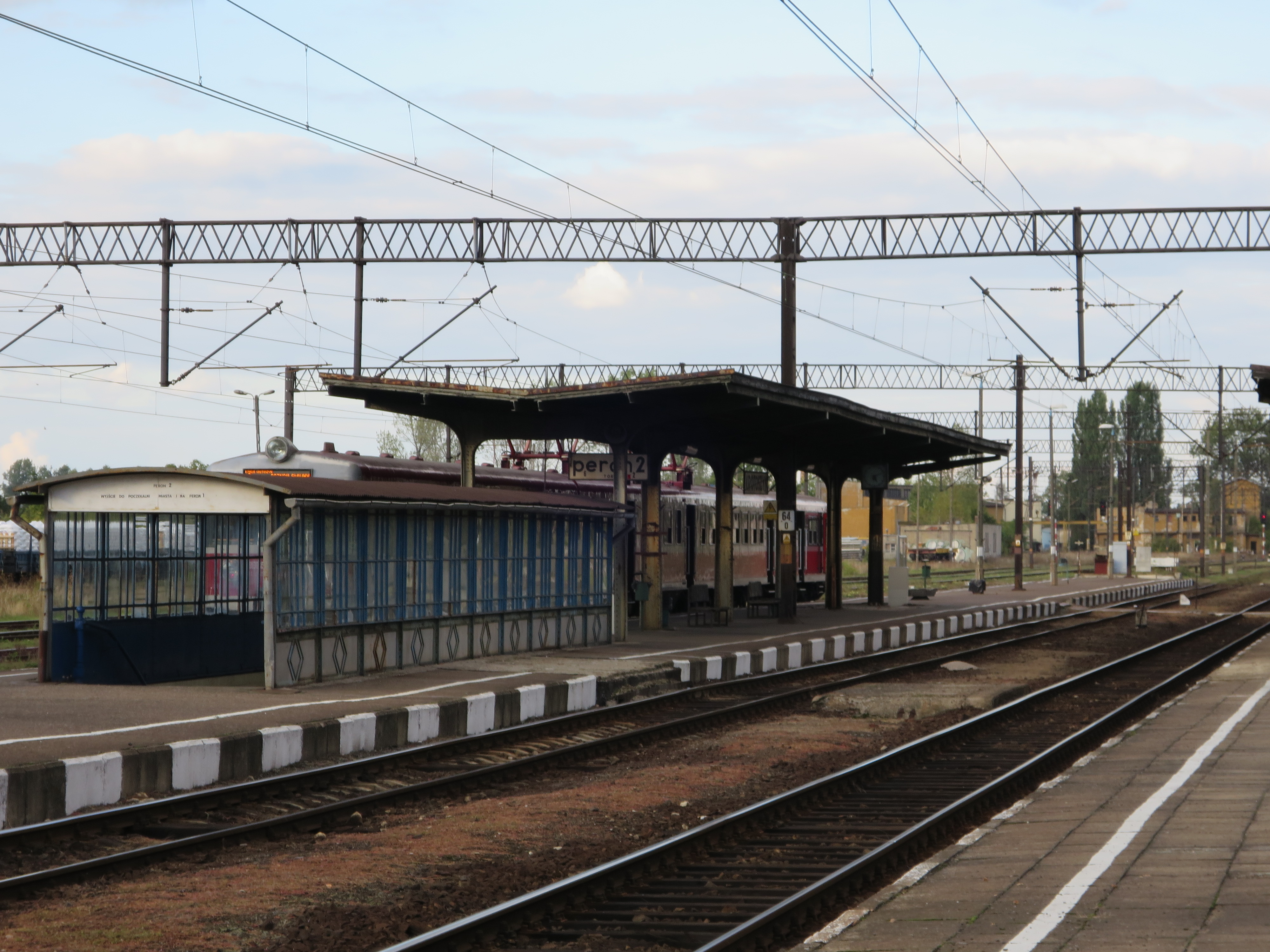 Krotoszyn This photo was taken during Railway Wikiexpedition 2015 set up by Wikimedia Polska Association in cooperation with Fundacja Grupy PKP.You can see all photographs in category Wikiekspedycja kolejowa 2015.